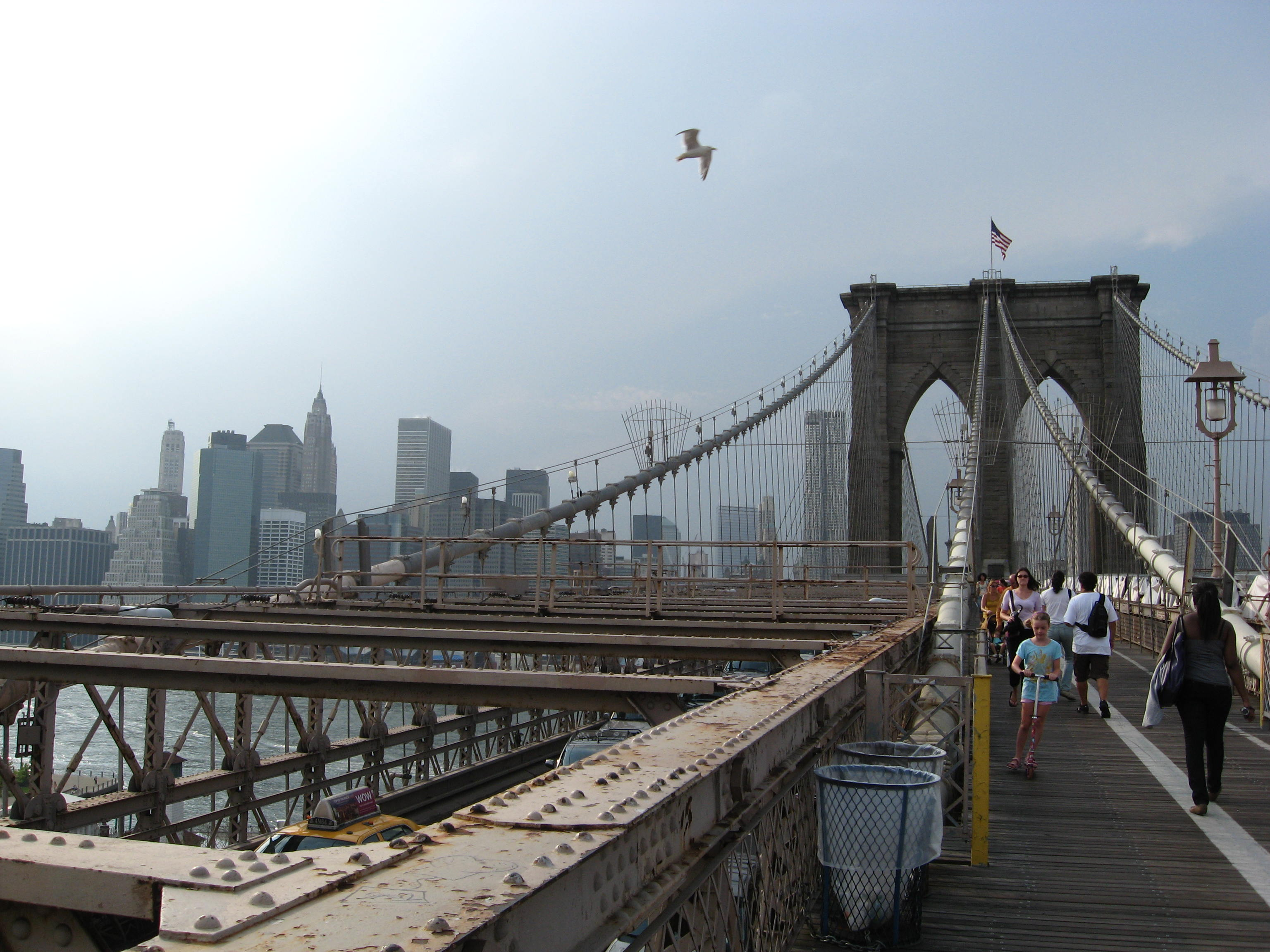 The Brooklyn Bridge in New York City.